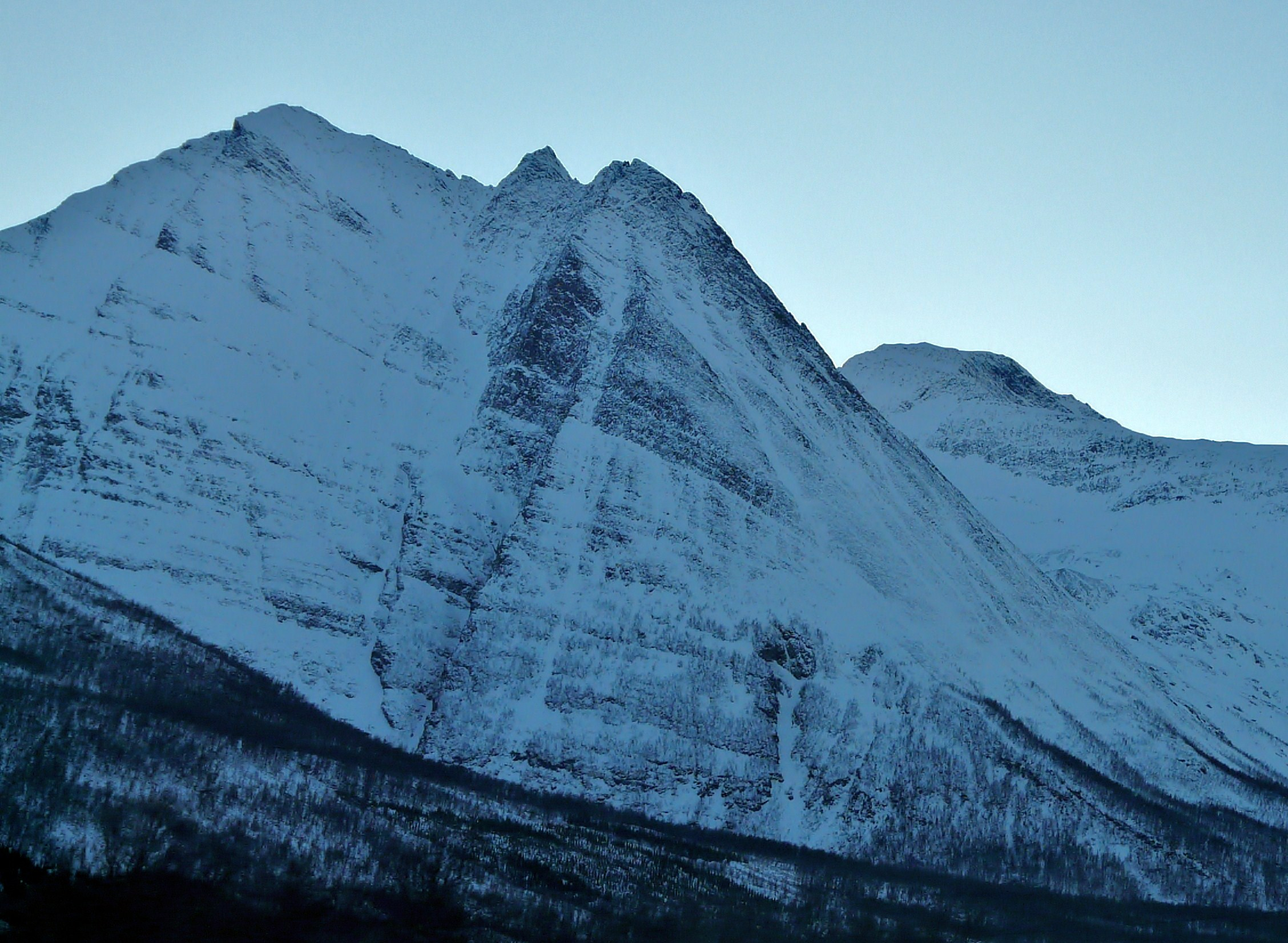 Store Russetinden as seen from the northeast from the E6 road near Nordkjosbotn in 2009 February.